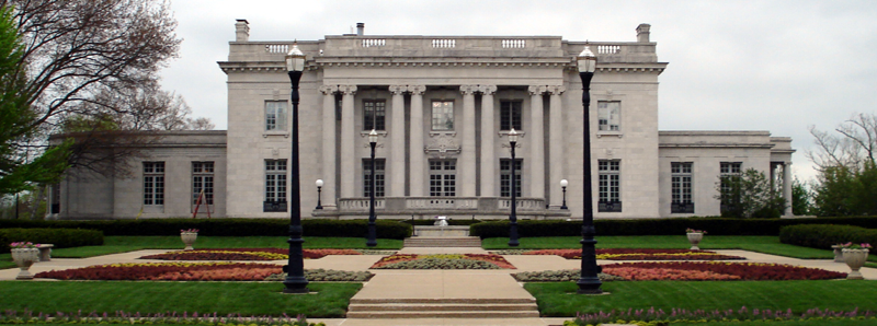 Kentucky Governor's Mansion. Taken by user Acdixon in Frankfort, KY on April 27, 2007